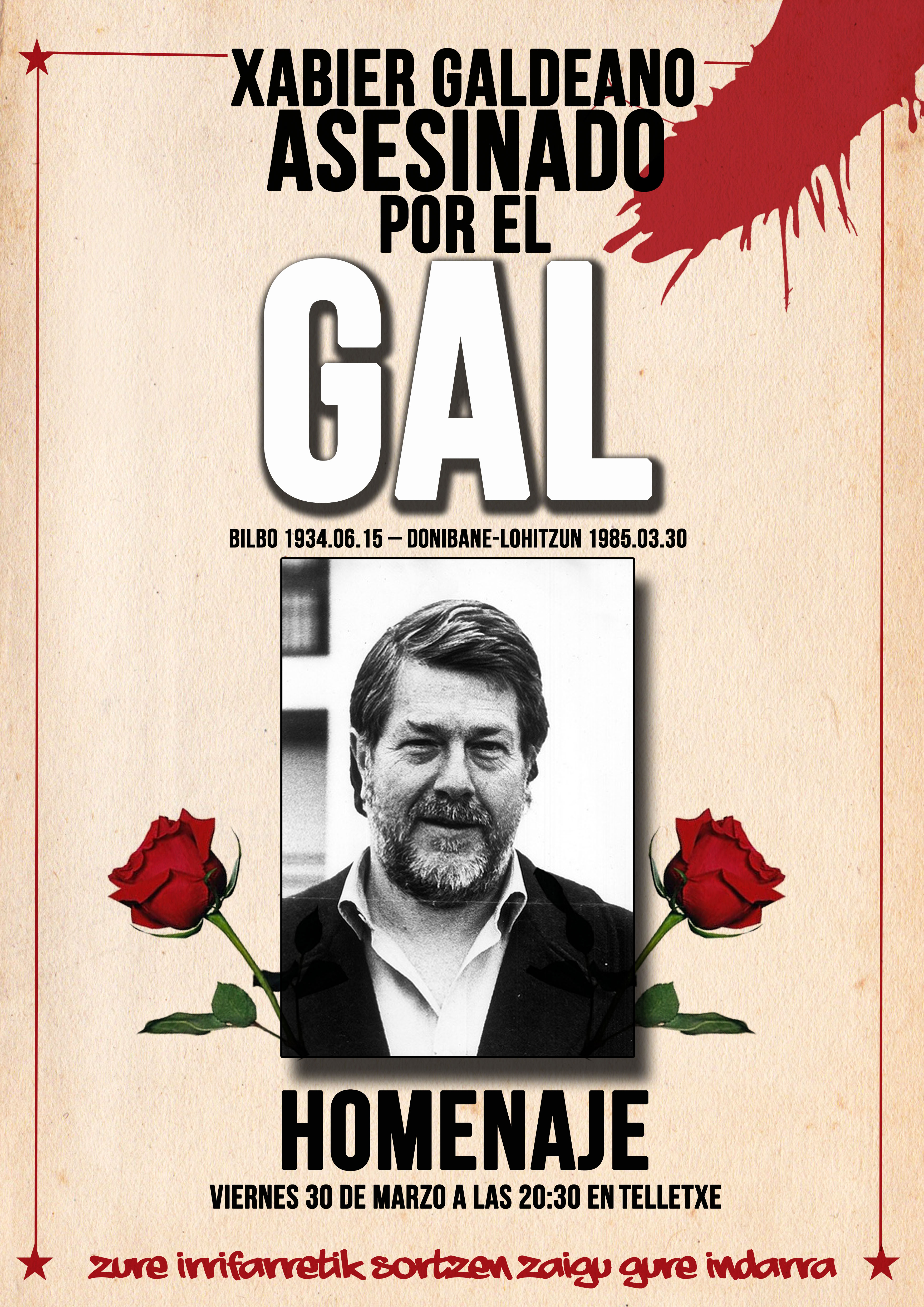 Poster calling for hommage to Xabier galdeano, victim of GAL